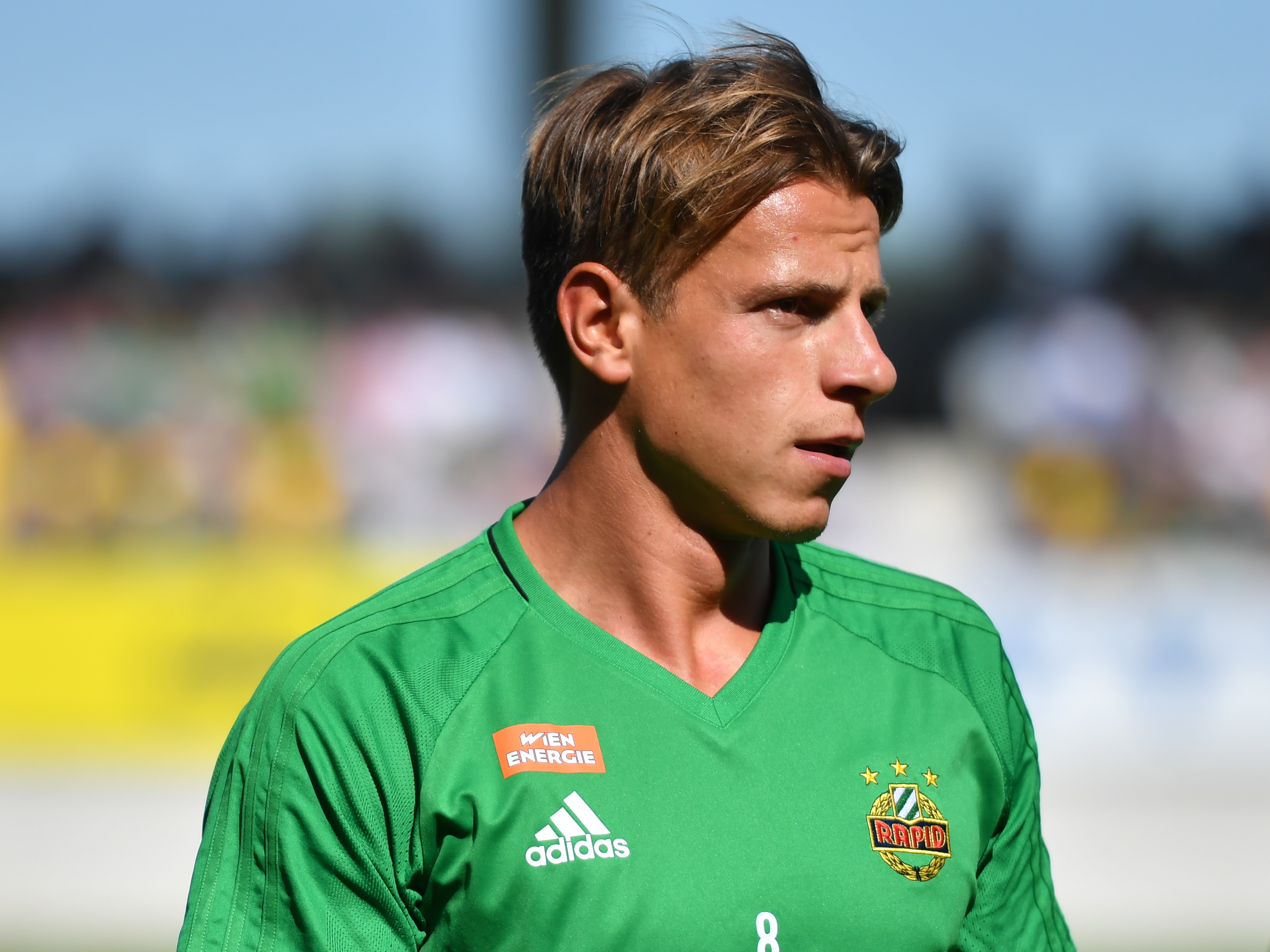 1/7/2017, Amstetten, Austria, sports, soccer, Tipico Fussball Bundesliga - preparation match SK Rapid Wien vs Celtic Glasgow. Image shows Stefan Schwab (SCR).